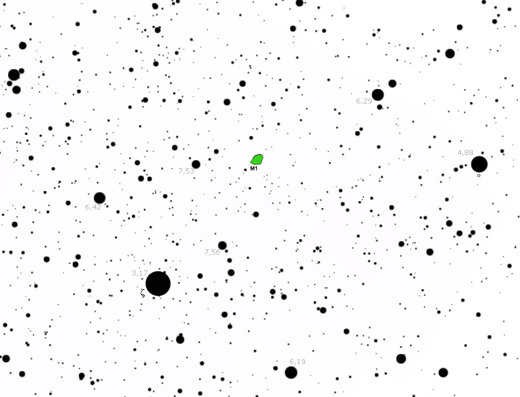 M1 chart; north is on the top, grey numbers are stars' visual magnitudo